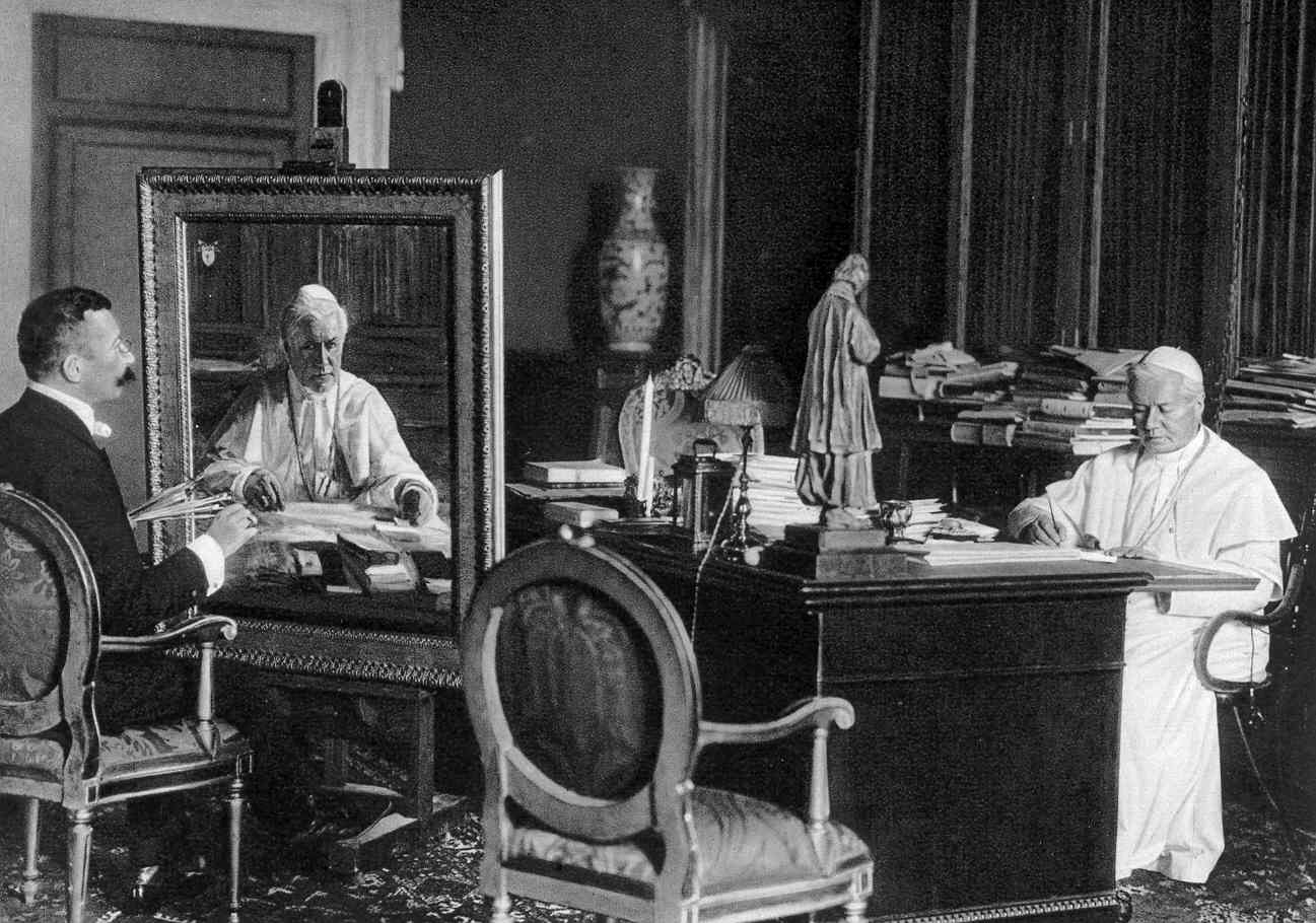 A 1904 copyright expired photo of Pope Pius X